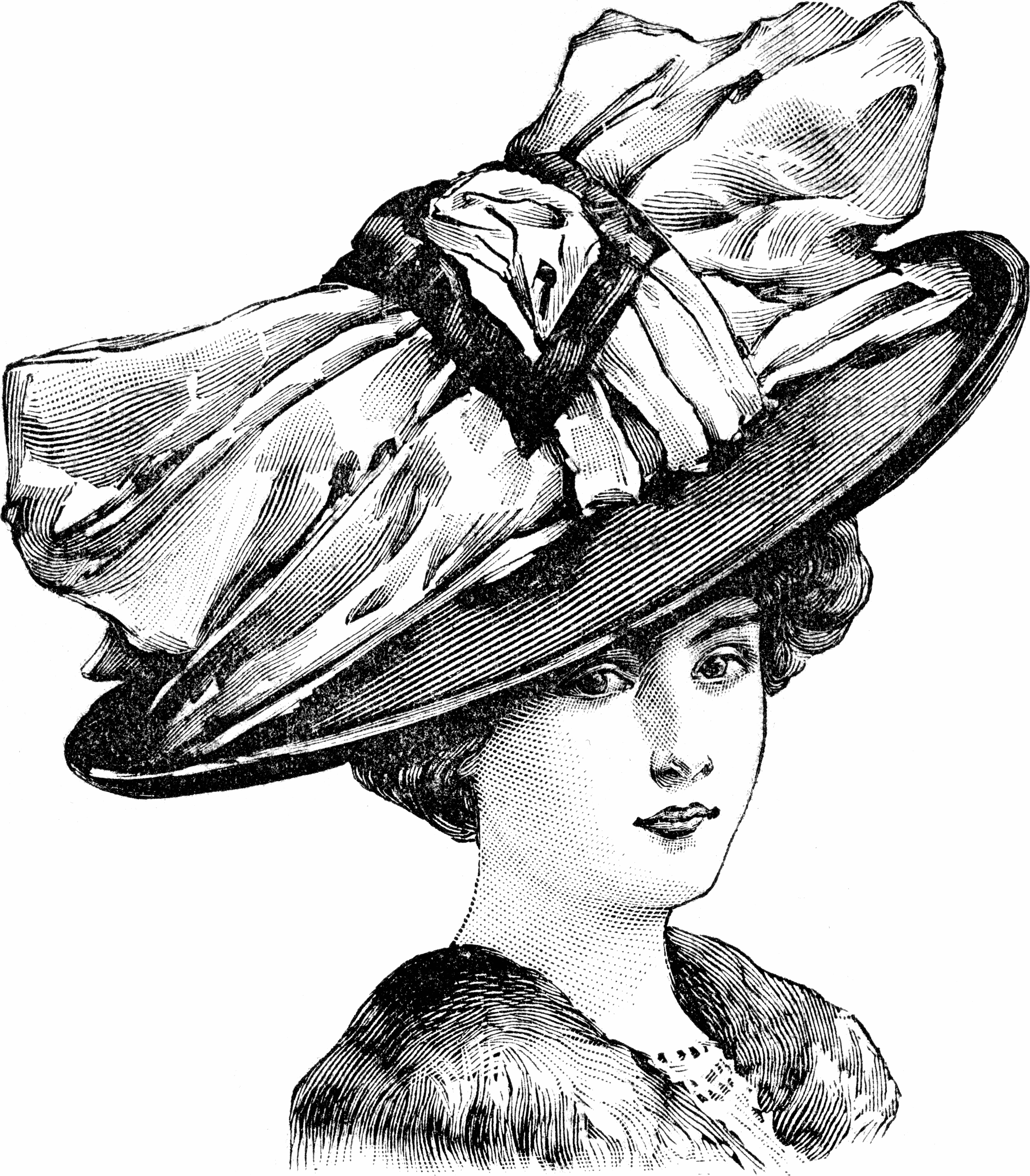 3916 HAT tendu(tense) velvet navy, plum, bronze, taupe is black with a big bow taffeta chameleon changing and loop pile. 38.